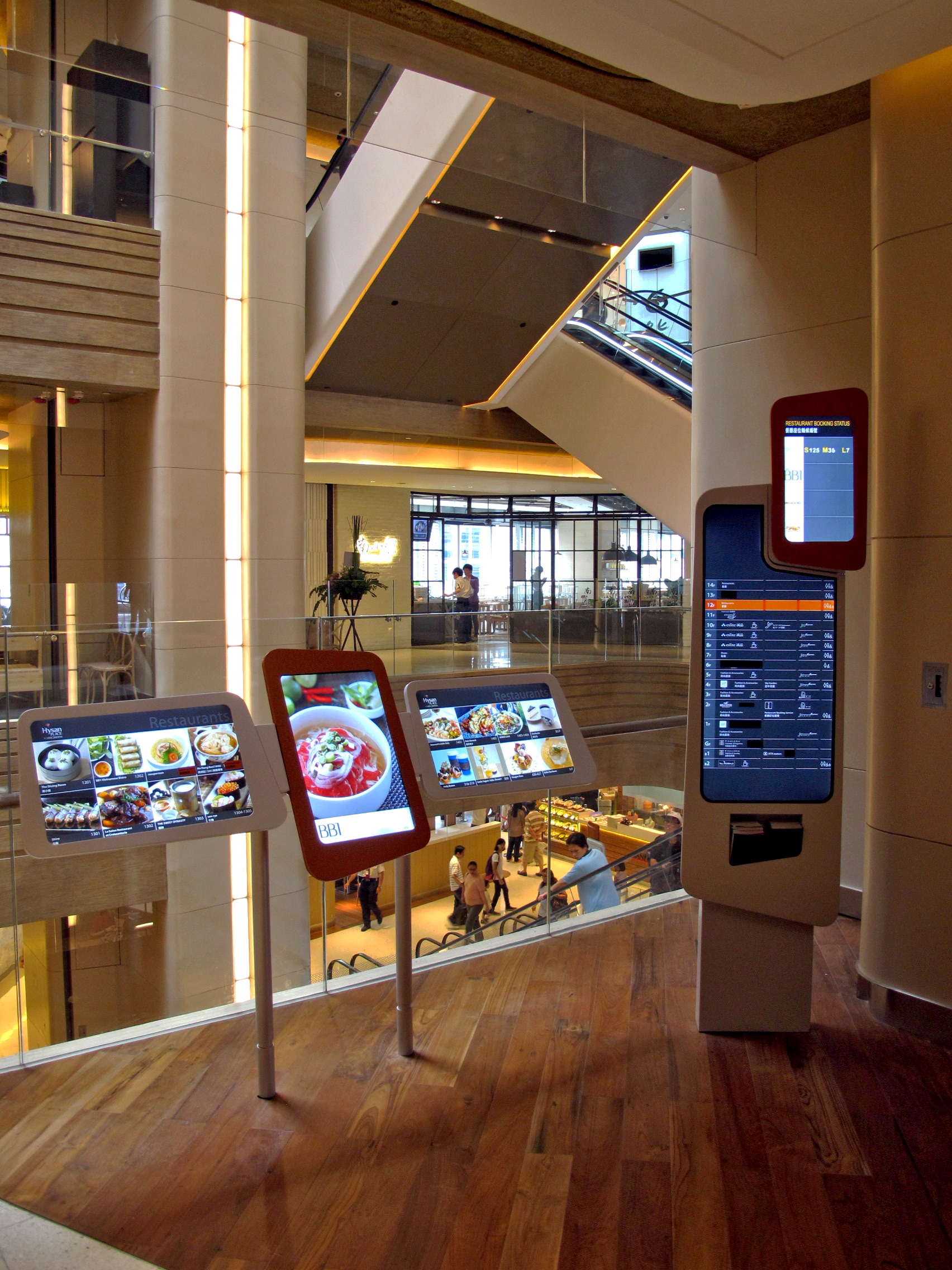 Hysan Place Directory in Level 12